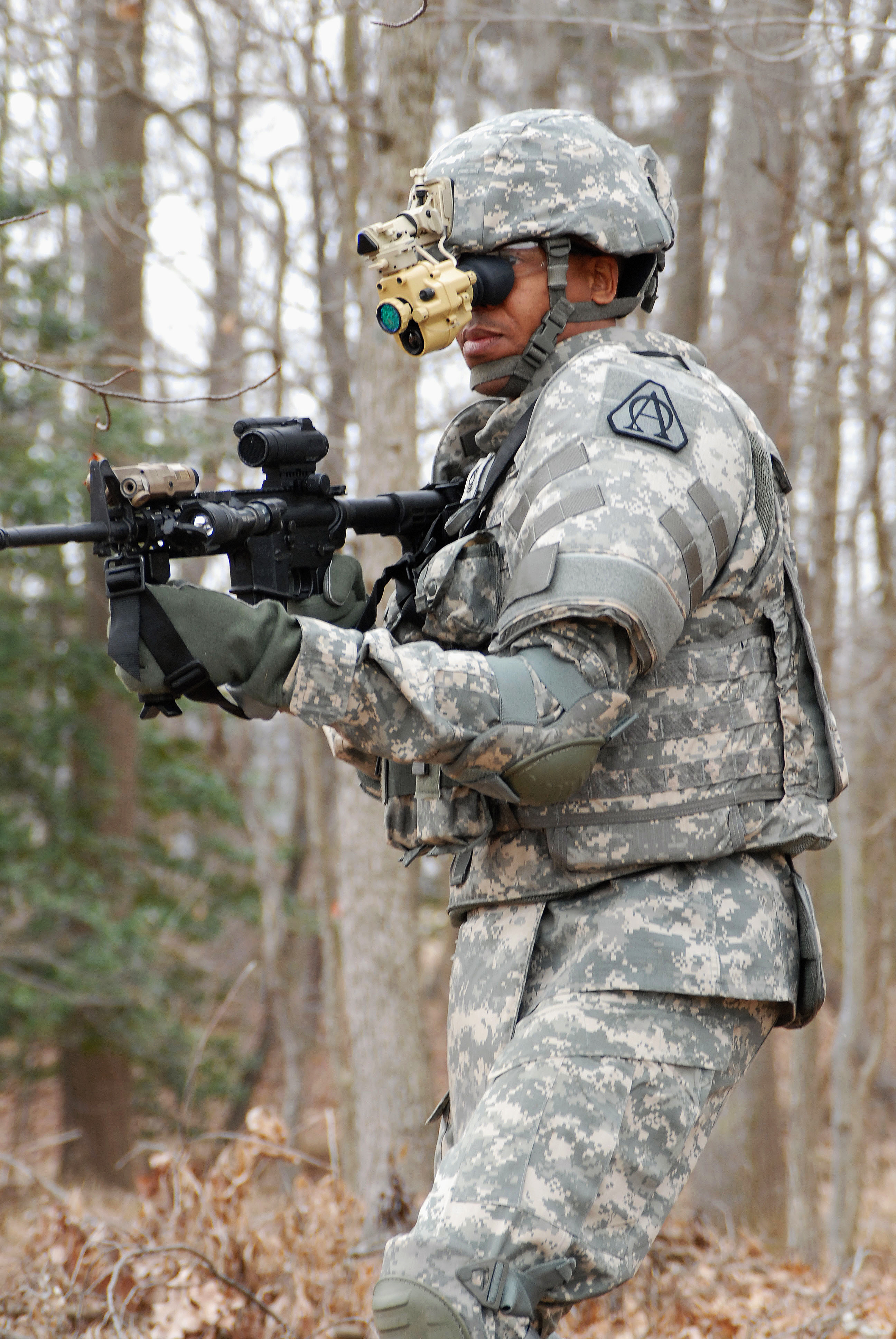 A soldier of the United States Army, wearing AN/PSQ-20 "Enhanced Night Vision Goggles (ENVG)". The ENVG is the first helmet-mounted device that has combined image intensification and infrared technologies.